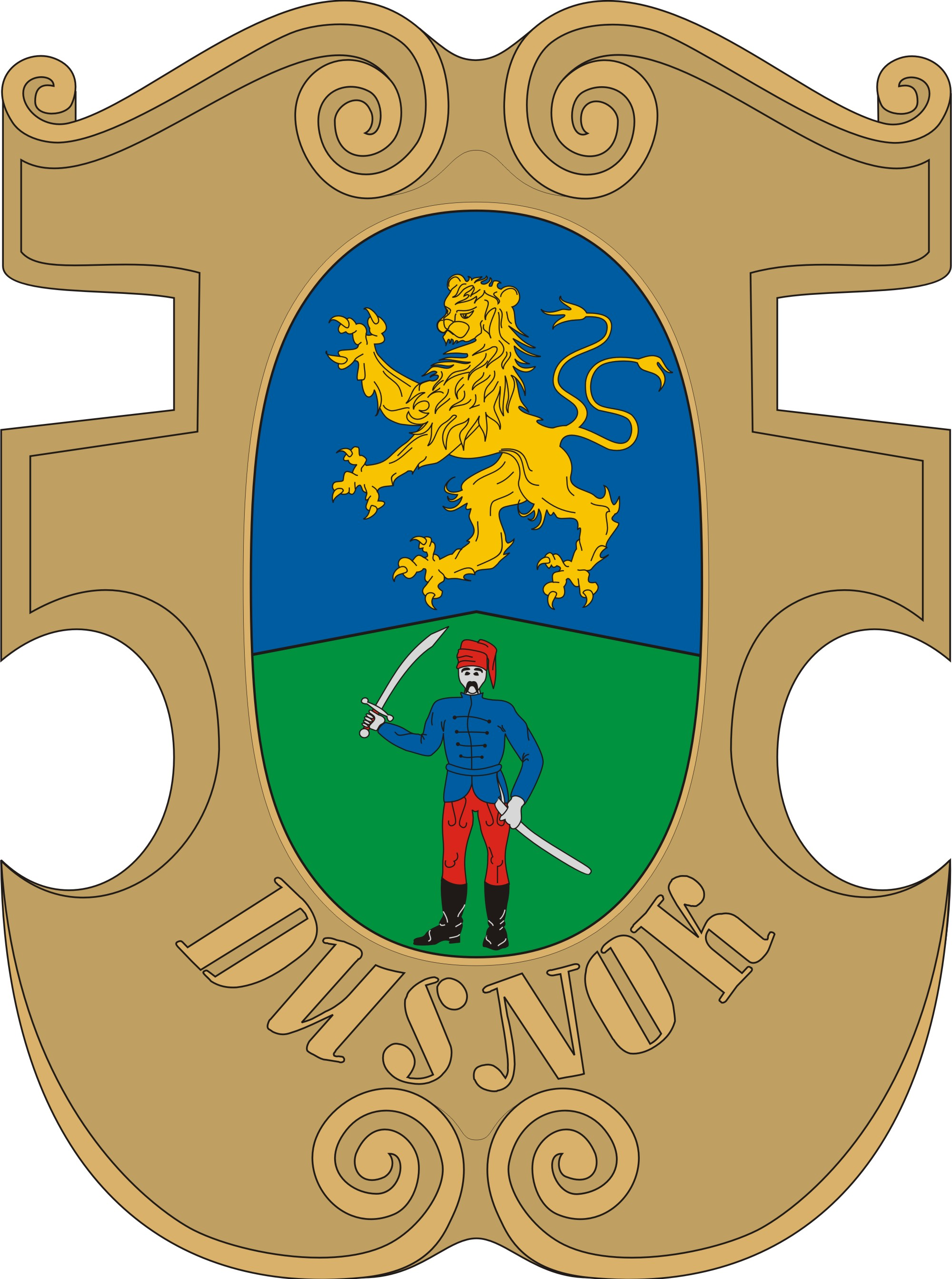 Coat of arms of Dusnok, Hungary